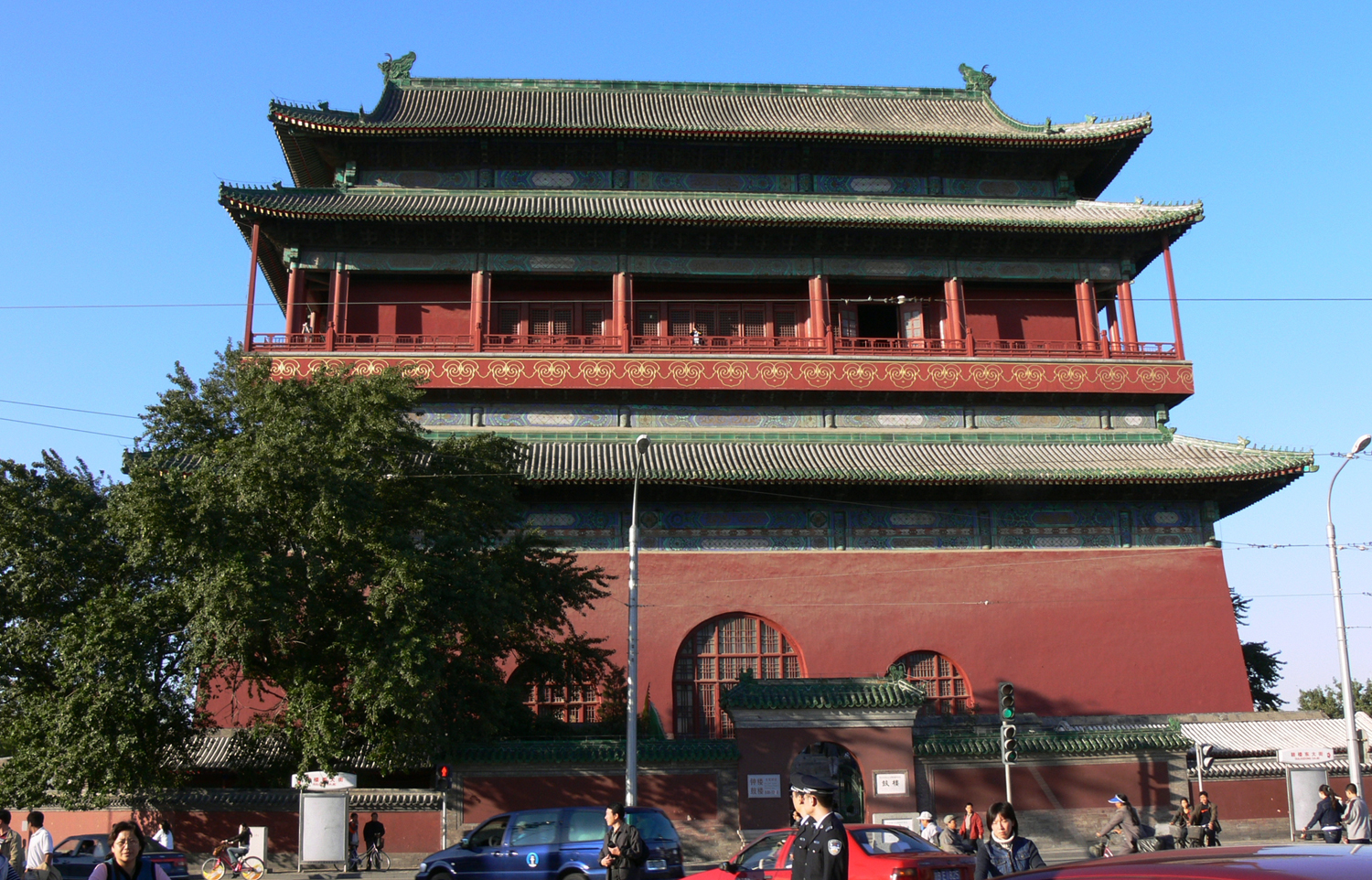 Beijing drum tower 中文（中国大陆）: 北京鼓楼